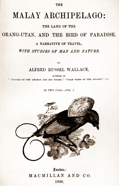 Title page of volume 1 of "The Malay Archipelago" by Alfred Russel Wallace, published by Macmillan, London, 1869.